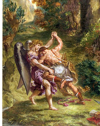 Eugene Delacroix (1798-1863). Jacob Wrestling with the Angel. Chapel of the Guardian Angels (1857-1861), church of Saint Sulpice, Paris